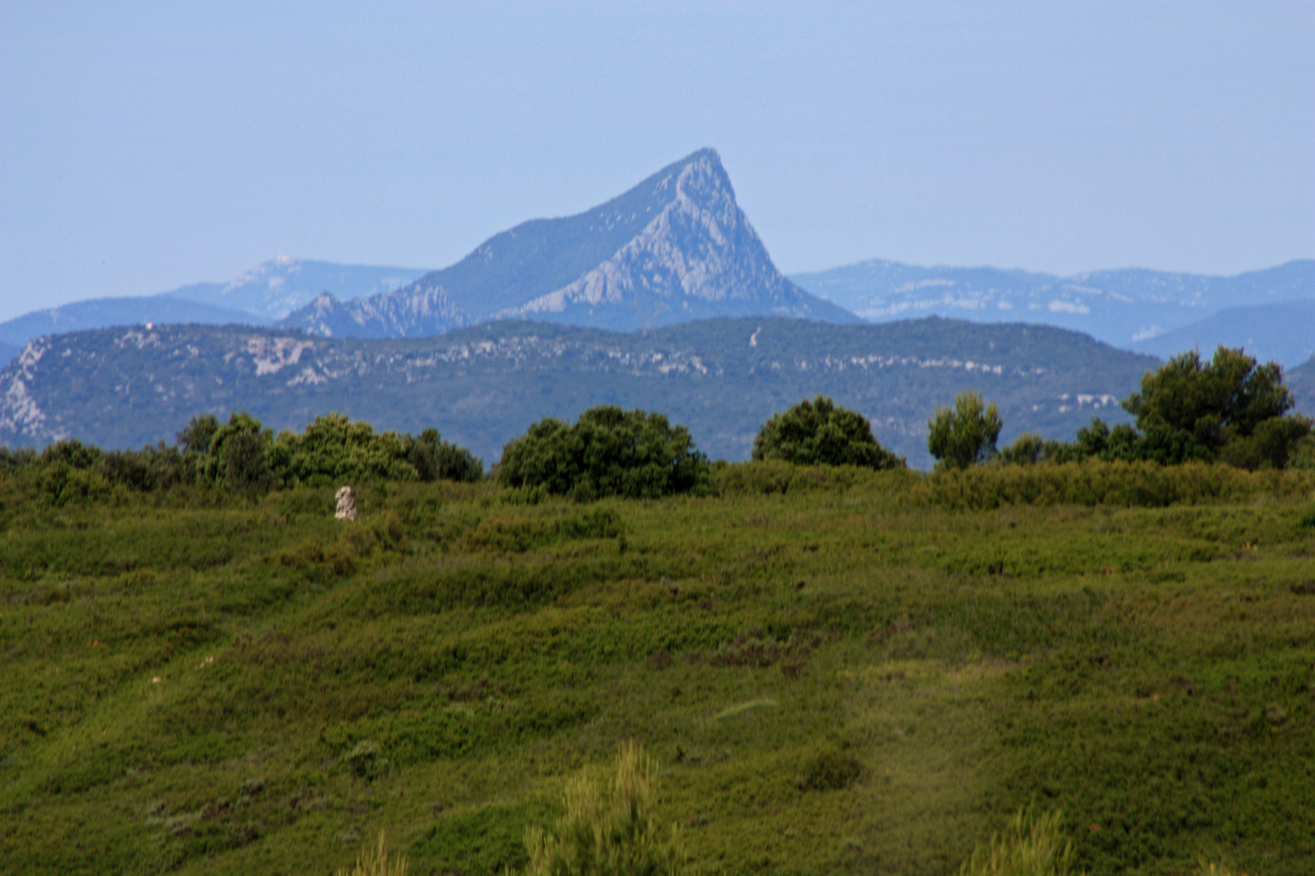 A light mistral can clearly see the pic St Loup